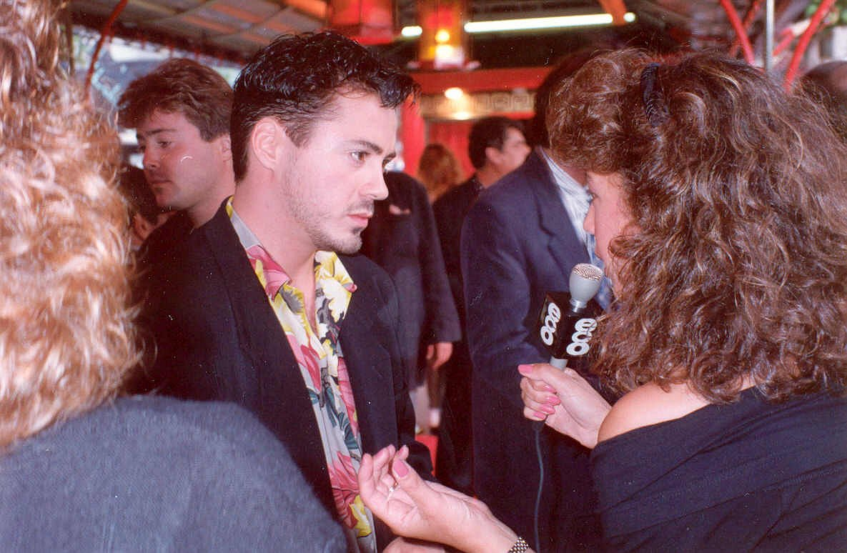 Photo taken at the AIR AMERICA movie premiere 1990 - Permission granted to copy, publish or post but please credit "photo by Alan Light" if you can